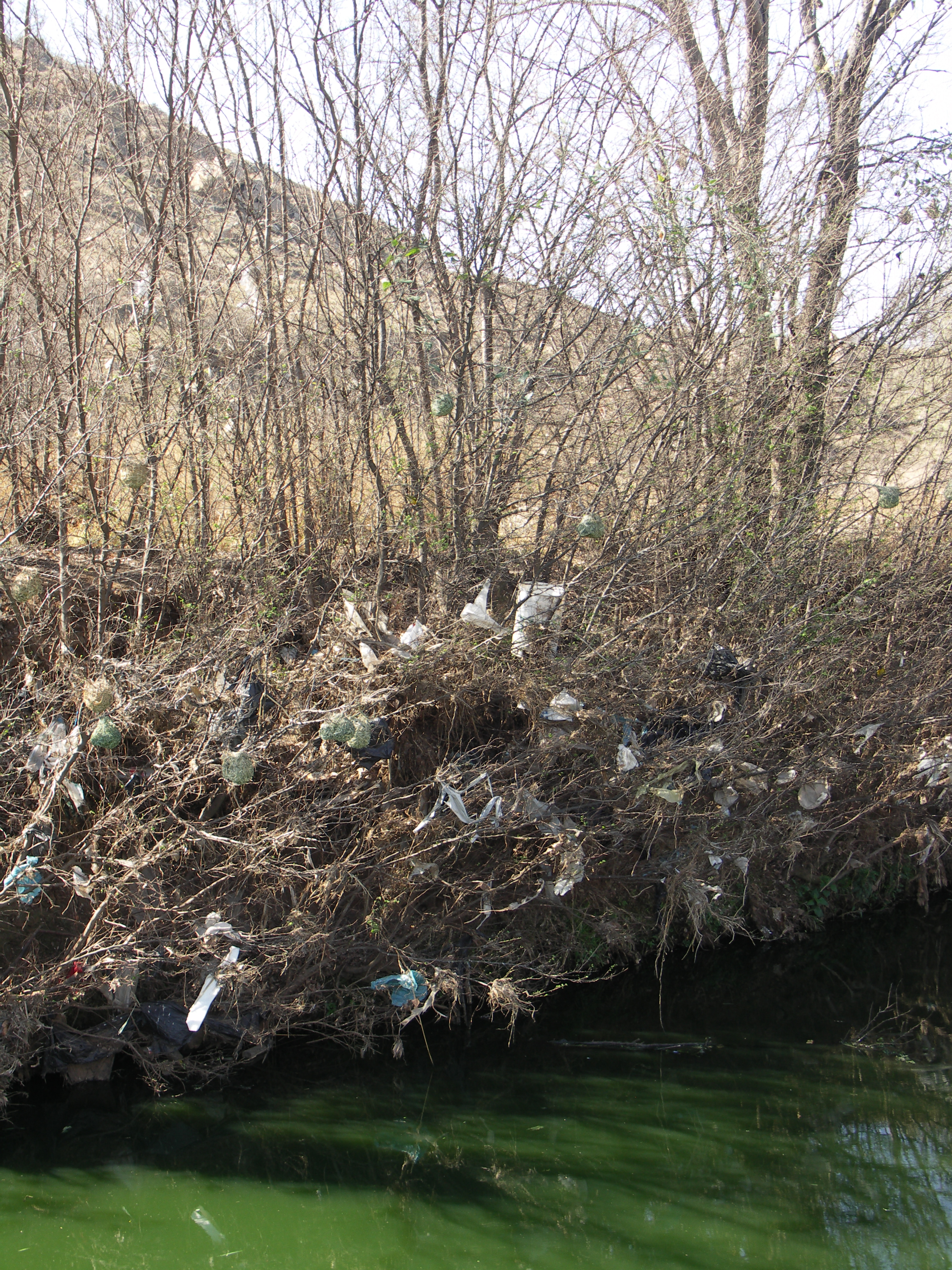 Birds nesting in a tree covered in plastic bag litter. Jukskei River, Johannesburg, South Africa